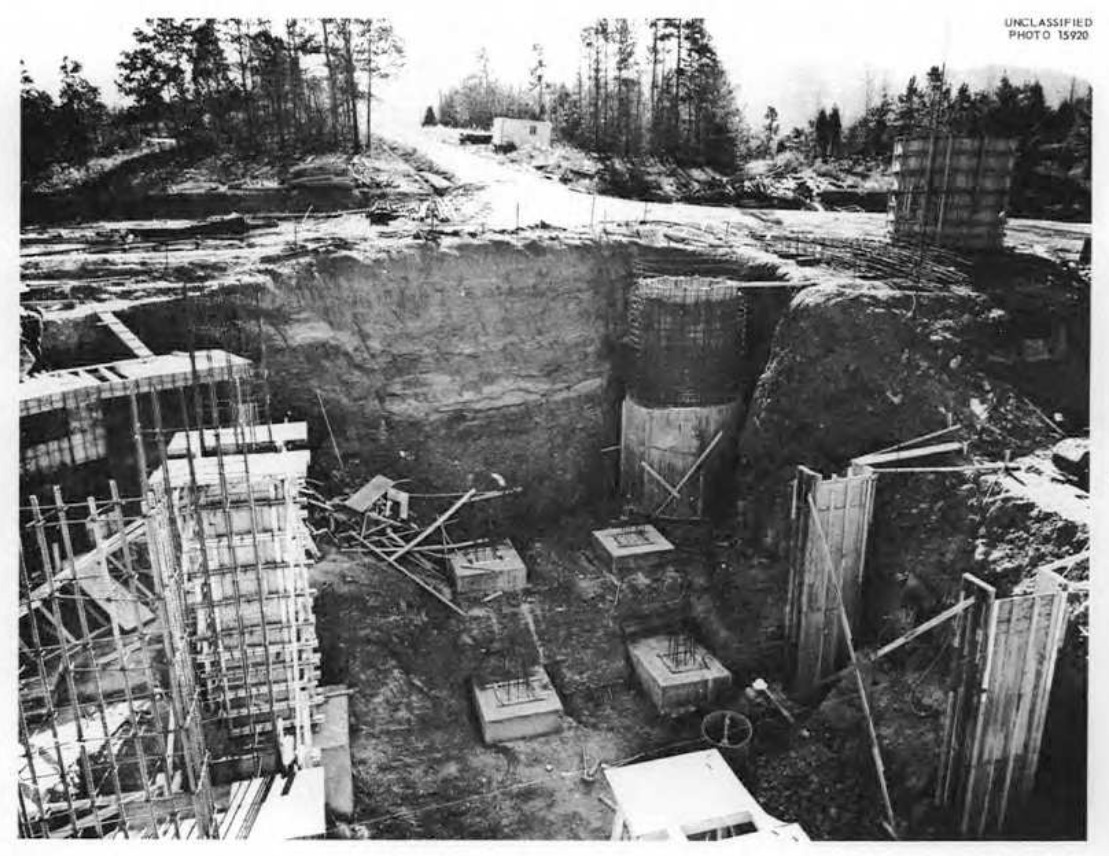 The ARE building was reconstructed to fit the Aircraft Reactor Test at Oak Ridge. After ART was cancelled, the Molten Salt Reactor Experiment was placed here.